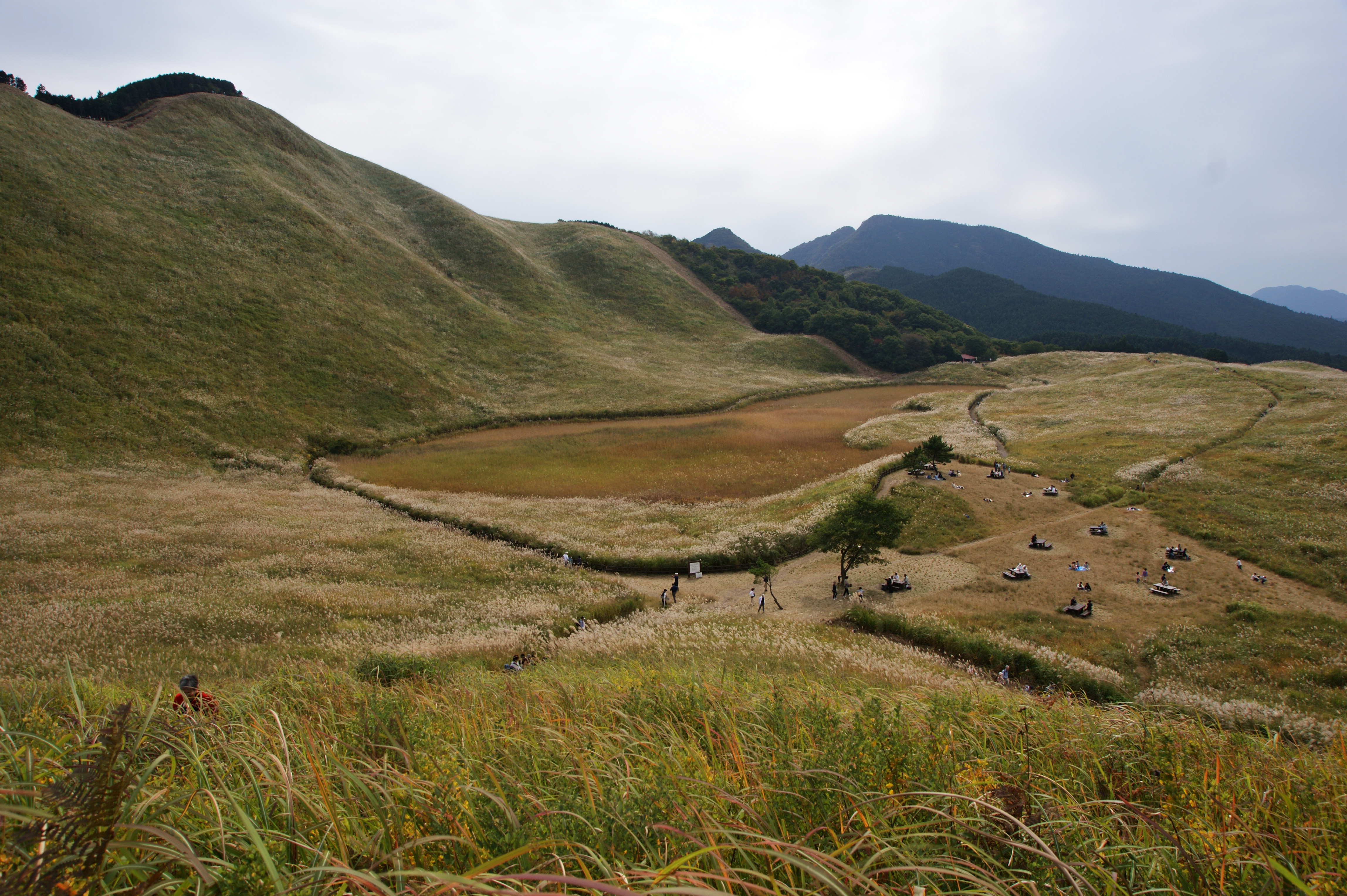 Soni highlands in Soni, Nara prefecture, Japan